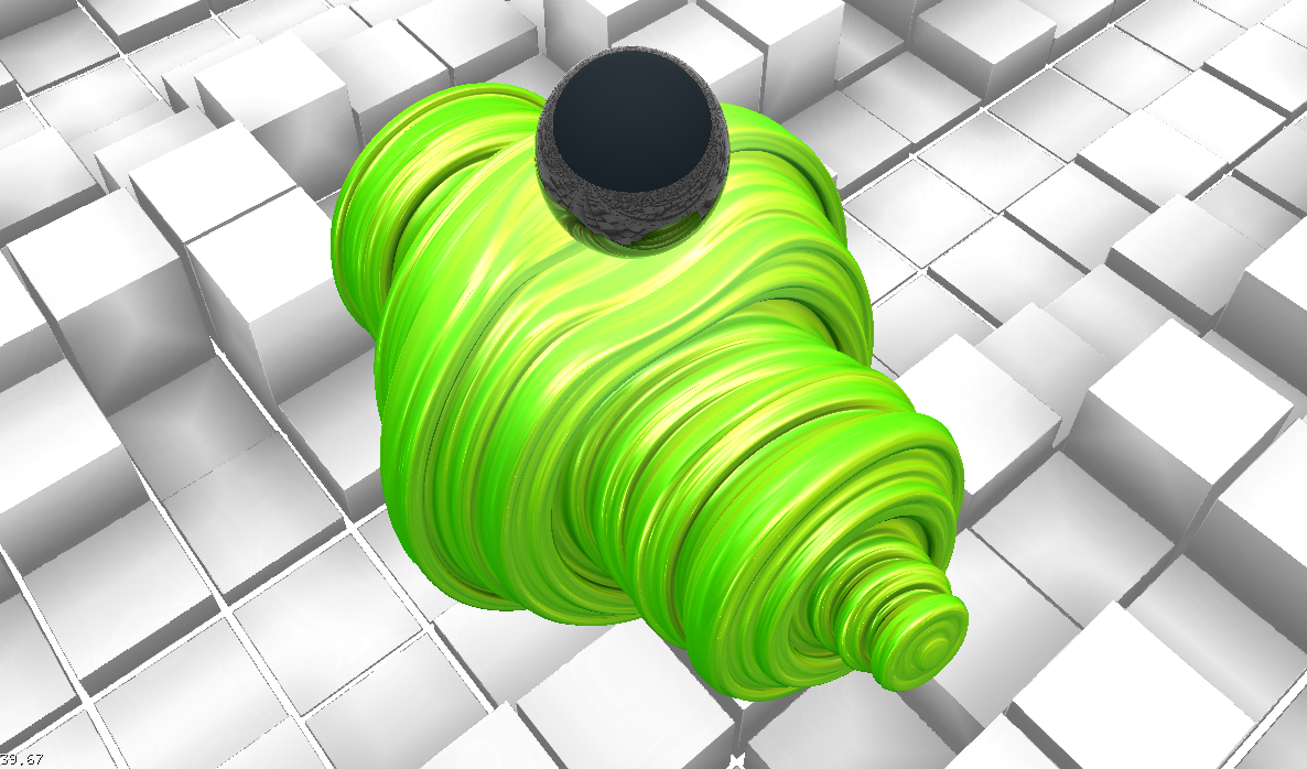 A Julia set drawn with NVIDIA OptiX©. It is also part of the free SDK